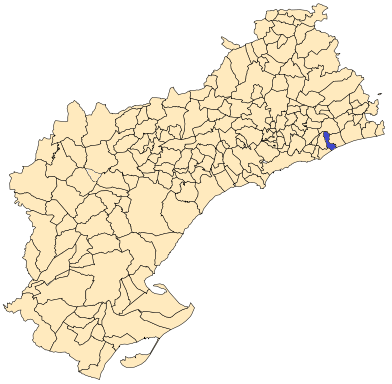 Creixell